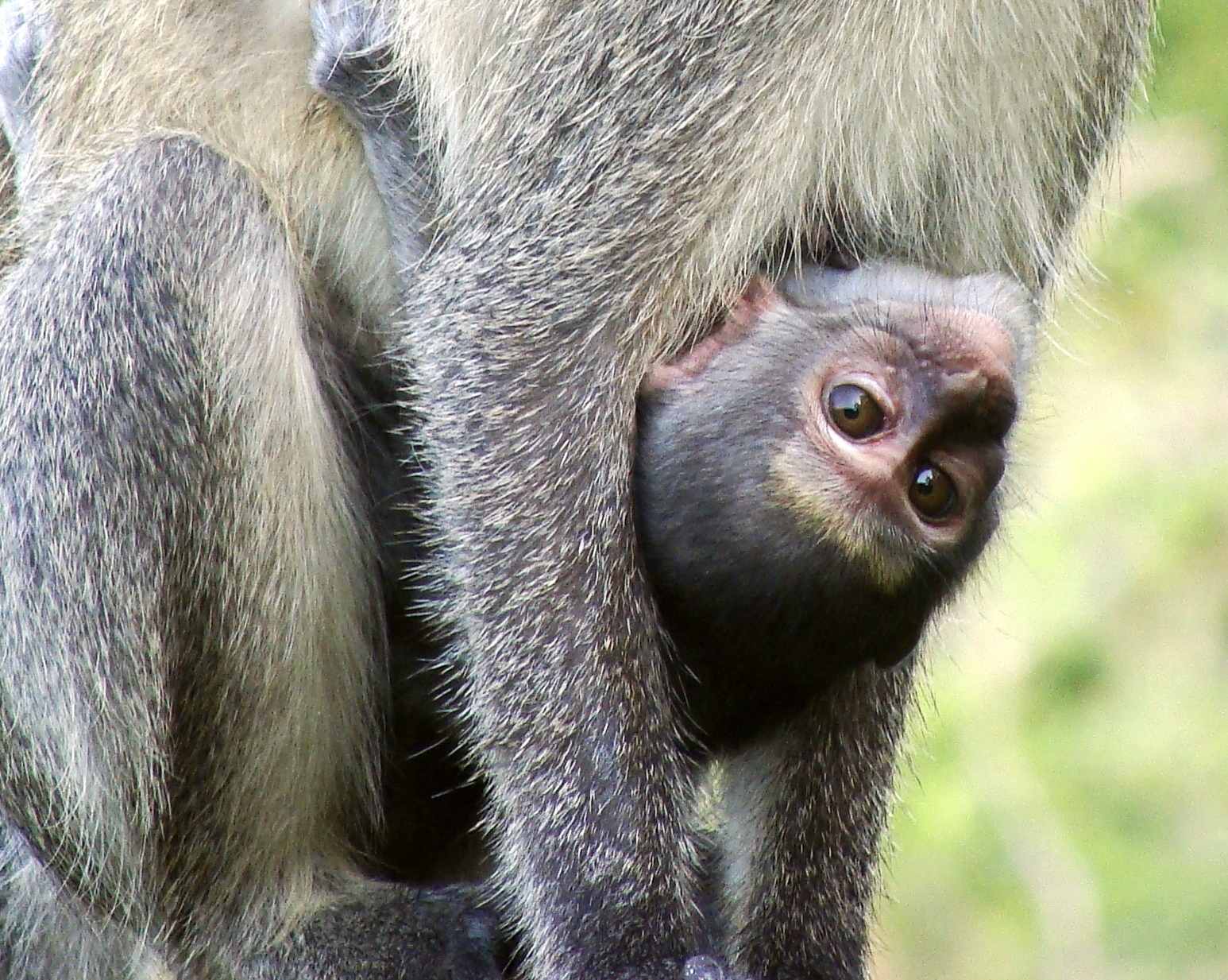 A baby monkey clinging to its mother